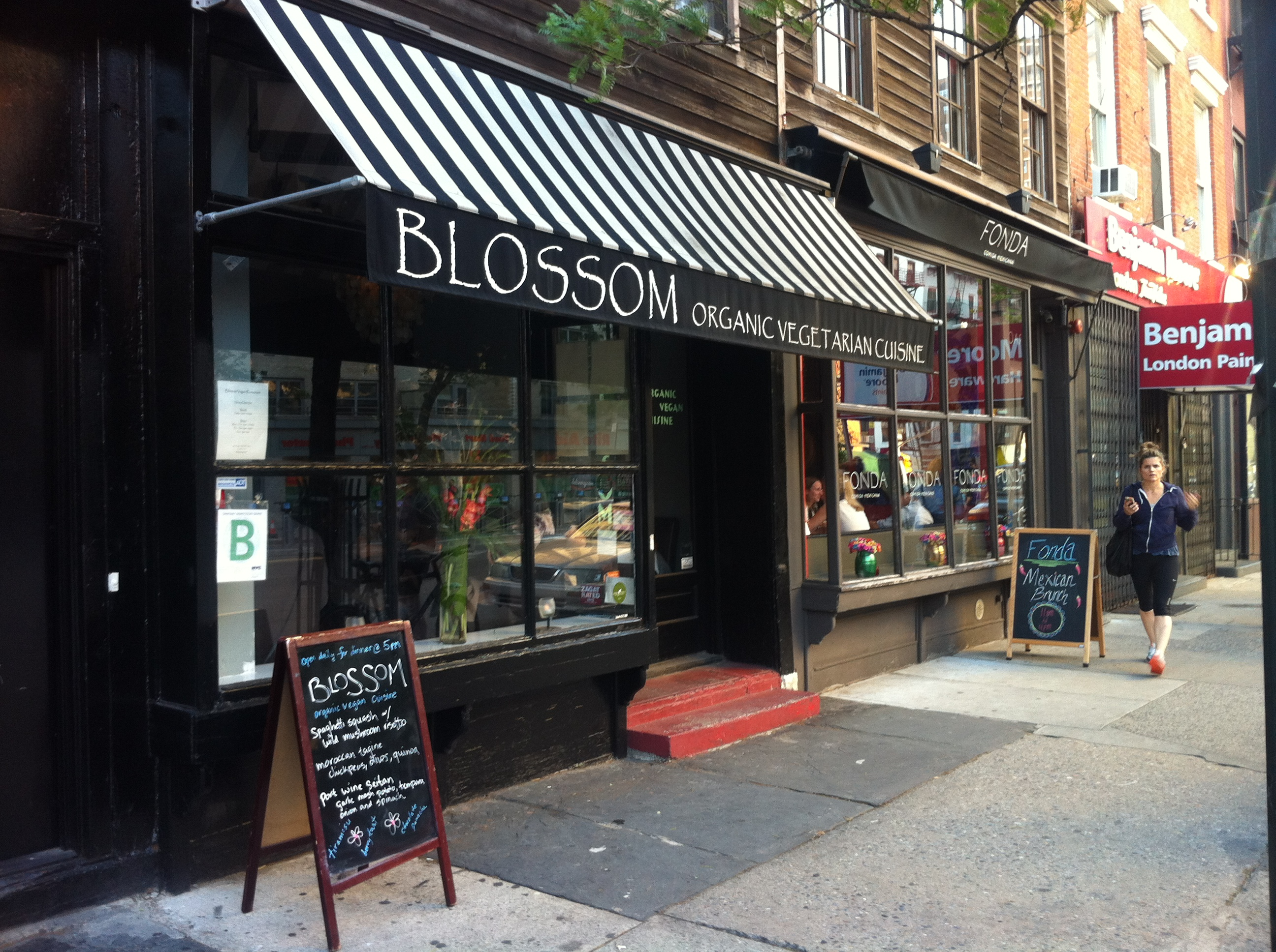 Chelsea, New York [1]